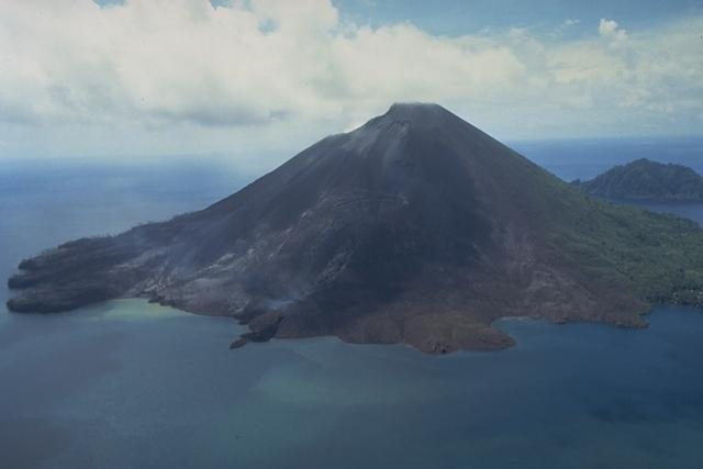 The 640-m-high symmetrical volcano of Banda Api, the most active of a chain of volcanoes in Indonesia's Banda Sea.